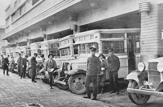 Osaka City Bus in 1930s